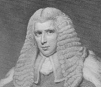 This is a cropped detail of an image already in WP as Baron Alderson.jpg It is listedthere as PD-old-100. This image is to be used in the WP article Neilson v Harford, which quotes Lord A's comments about the Neilson patent.